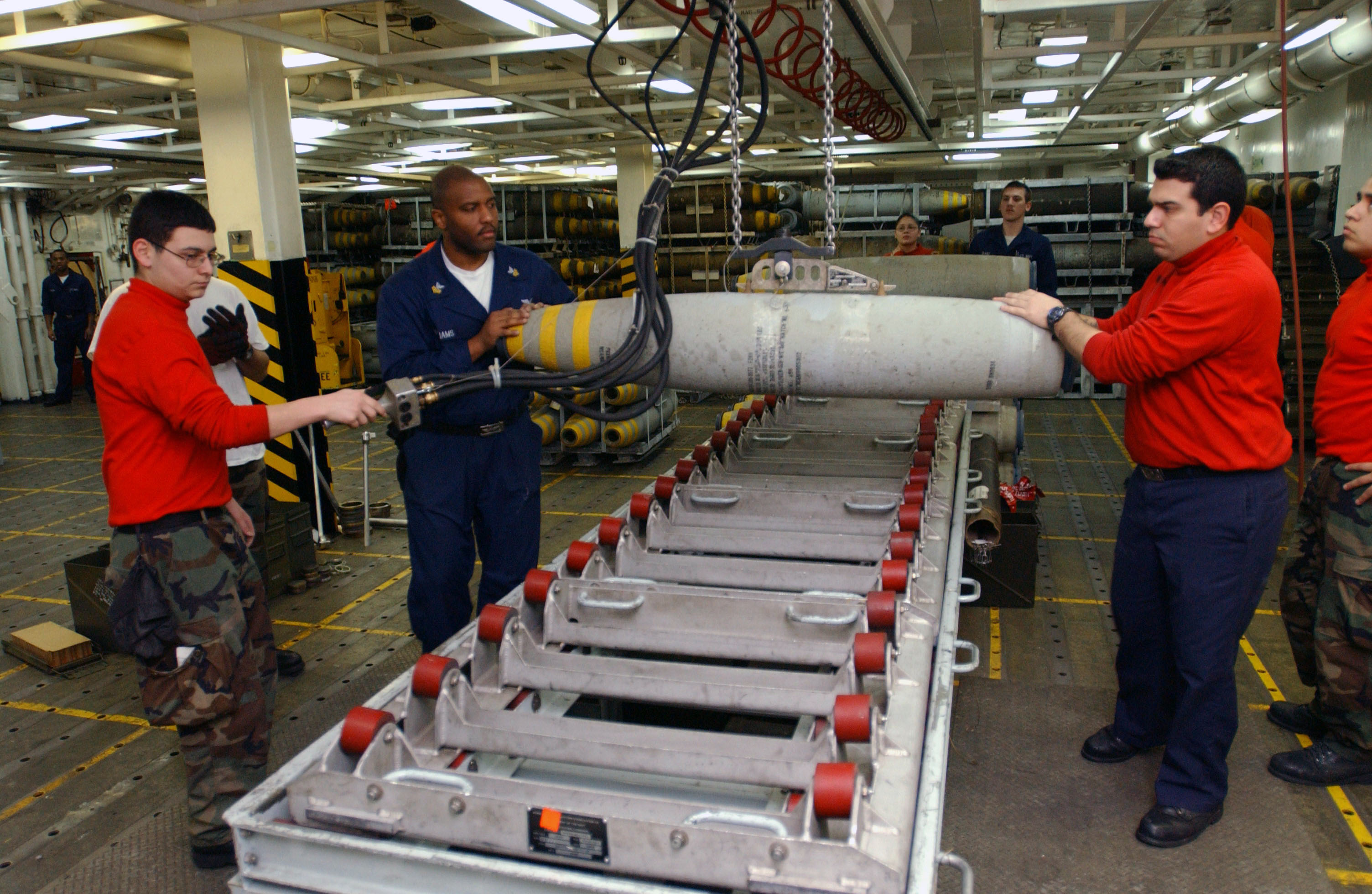 The Mediterranean Sea (Mar. 27, 2003) -- Aviation Ordnancemen assemble bombs aboard USS Theodore Roosevelt (CVN 71) before they are sent to the aircraft carrier's flight deck for uploading on various aircraft. Roosevelt is deployed in support of Operation Iraqi Freedom, the multi-national coalition effort to depose Saddam Hussein. U.S. Navy photo by Chief Photographer's Mate Eric A. Clement. (RELEASED)